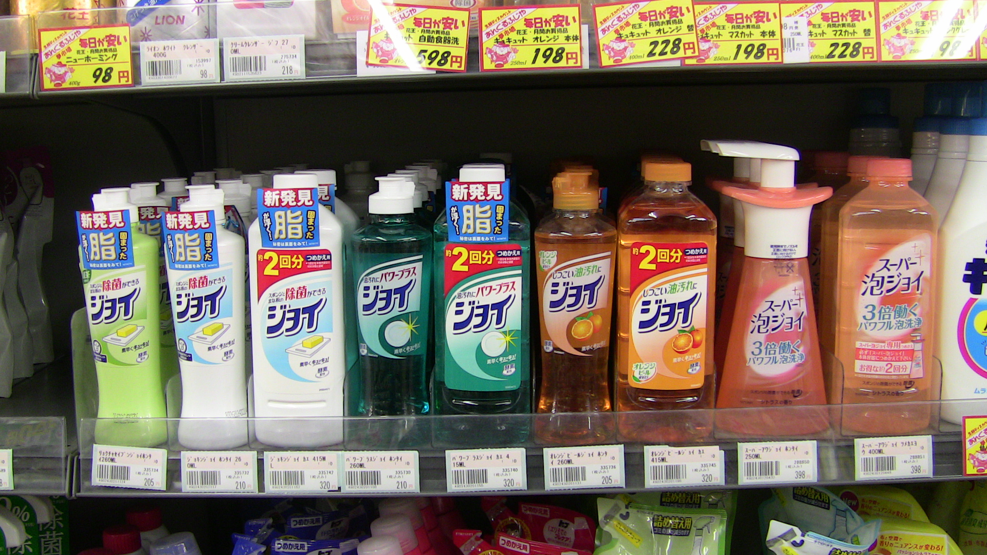 P&G_JOY